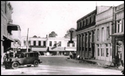 Photo of downtown Wetumpka